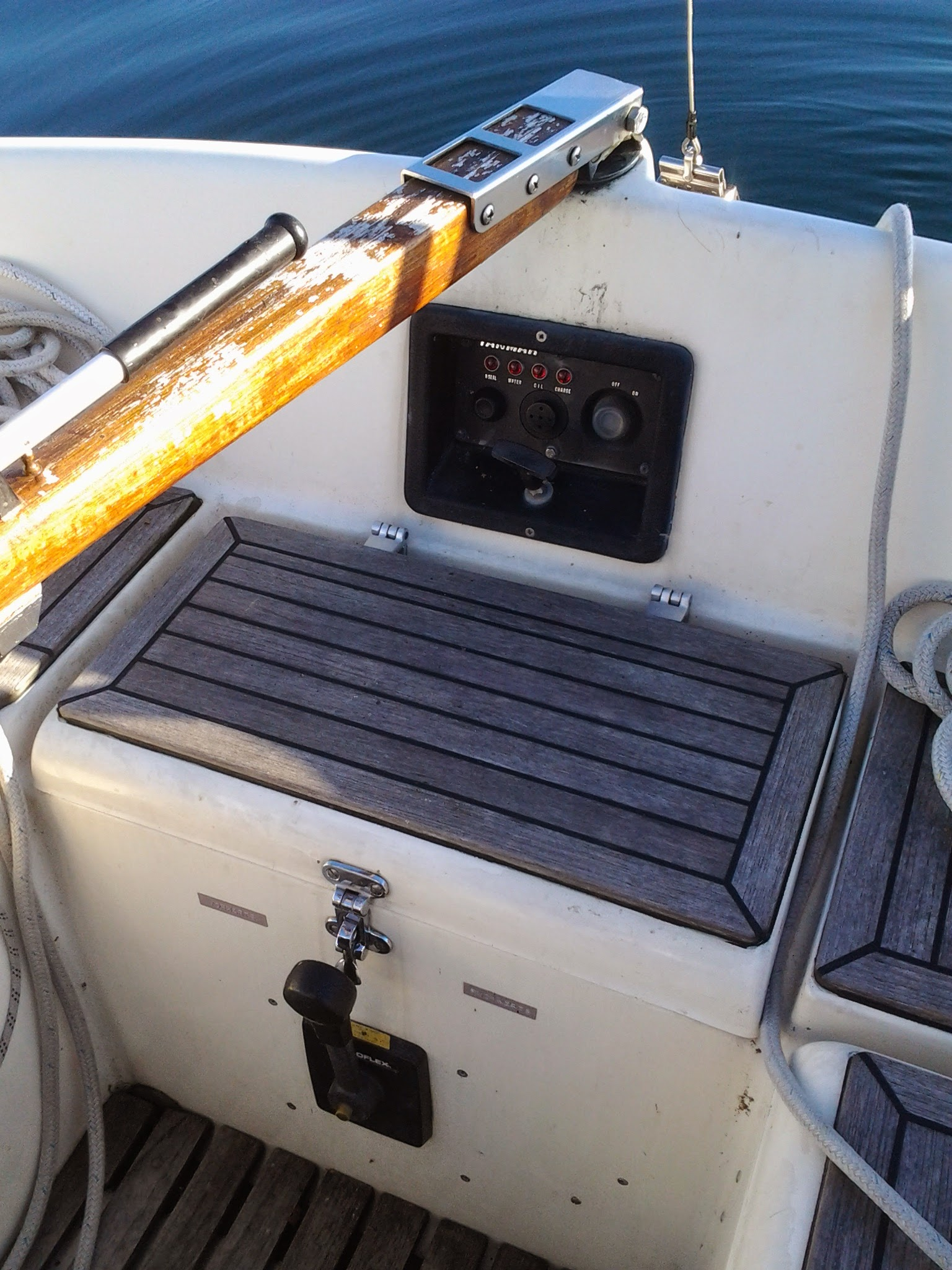 Engine control of a small sailboat: Main switch and start knob with control lights above, throttle below